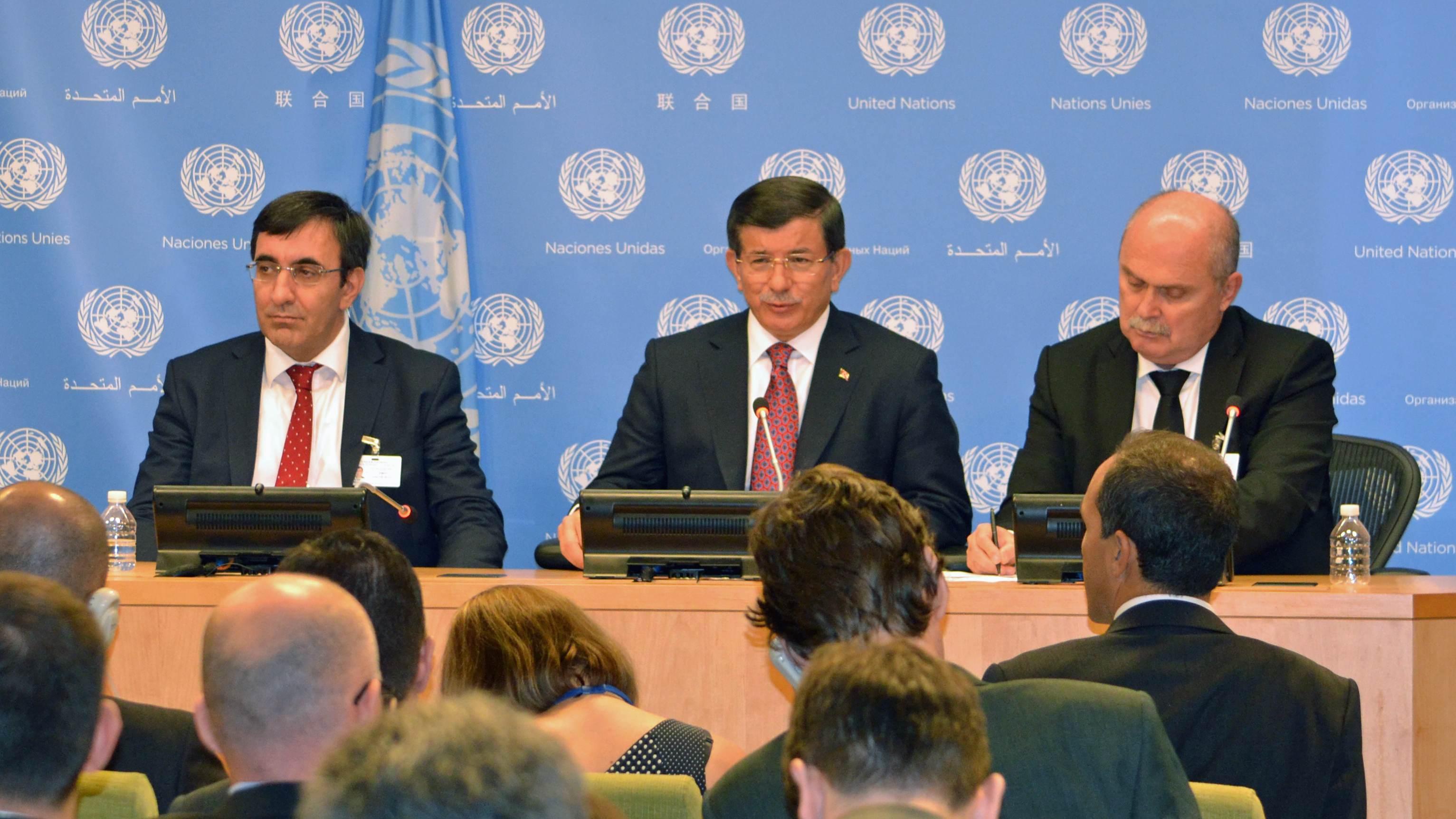 Turkish Prime Minister Ahmet Davutoğlu (C), Foreign Minister Feridun Sinirlioğlu (R) and Deputy Prime Minister Cevdet Yılmaz (L) at the United Nations, September 2015